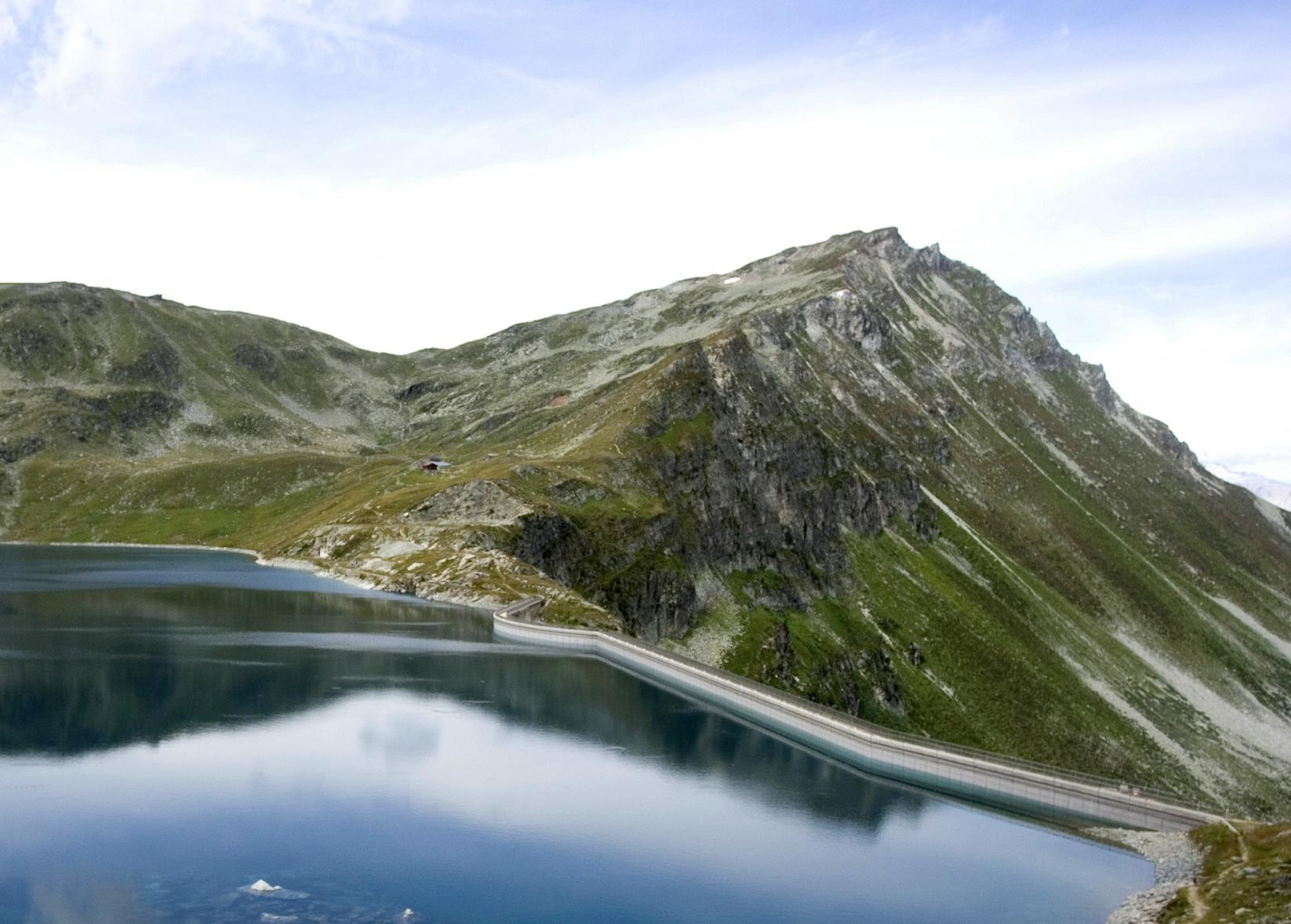 Illsee, lake near Chandolin with Illhorn, Valais